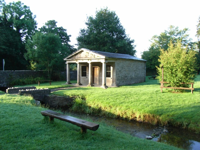 The Boyne Lodge at Townley Hall, Co. Louth This lodge is located in the portion of the Townley Hall estate which is now a forest park. The park gained notoriety as the scene of a brutal attack on two teenage girls in March 2009.